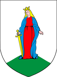 Coat of arms of Lachčycy village, Belarus. Беларуская (тарашкевіца): Герб вёскі Ляхчыцы, Кобрынскі раён, Беларусь.